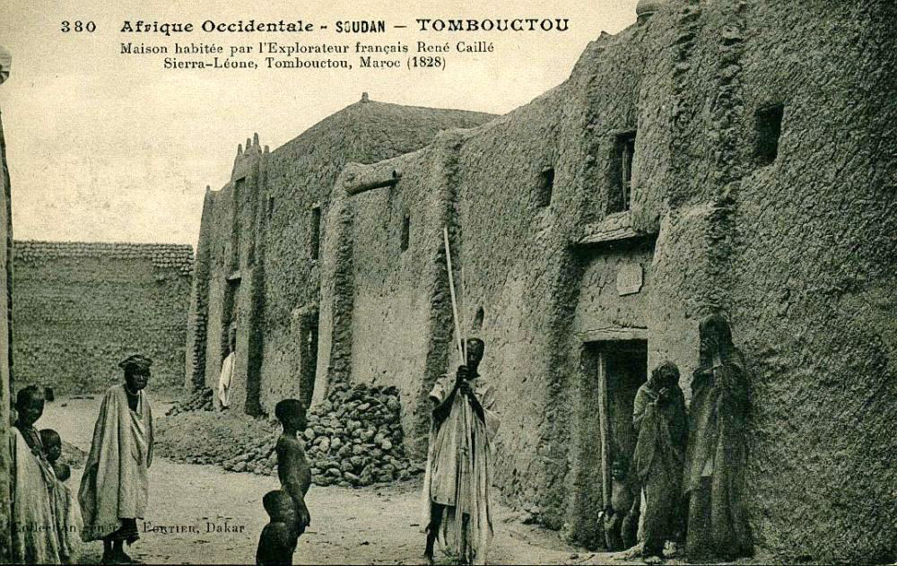 Postcard 380 by Edmond Fortier. View of the house where René Caillié stayed in 1828 during his visit to Timbuktu, Mali.